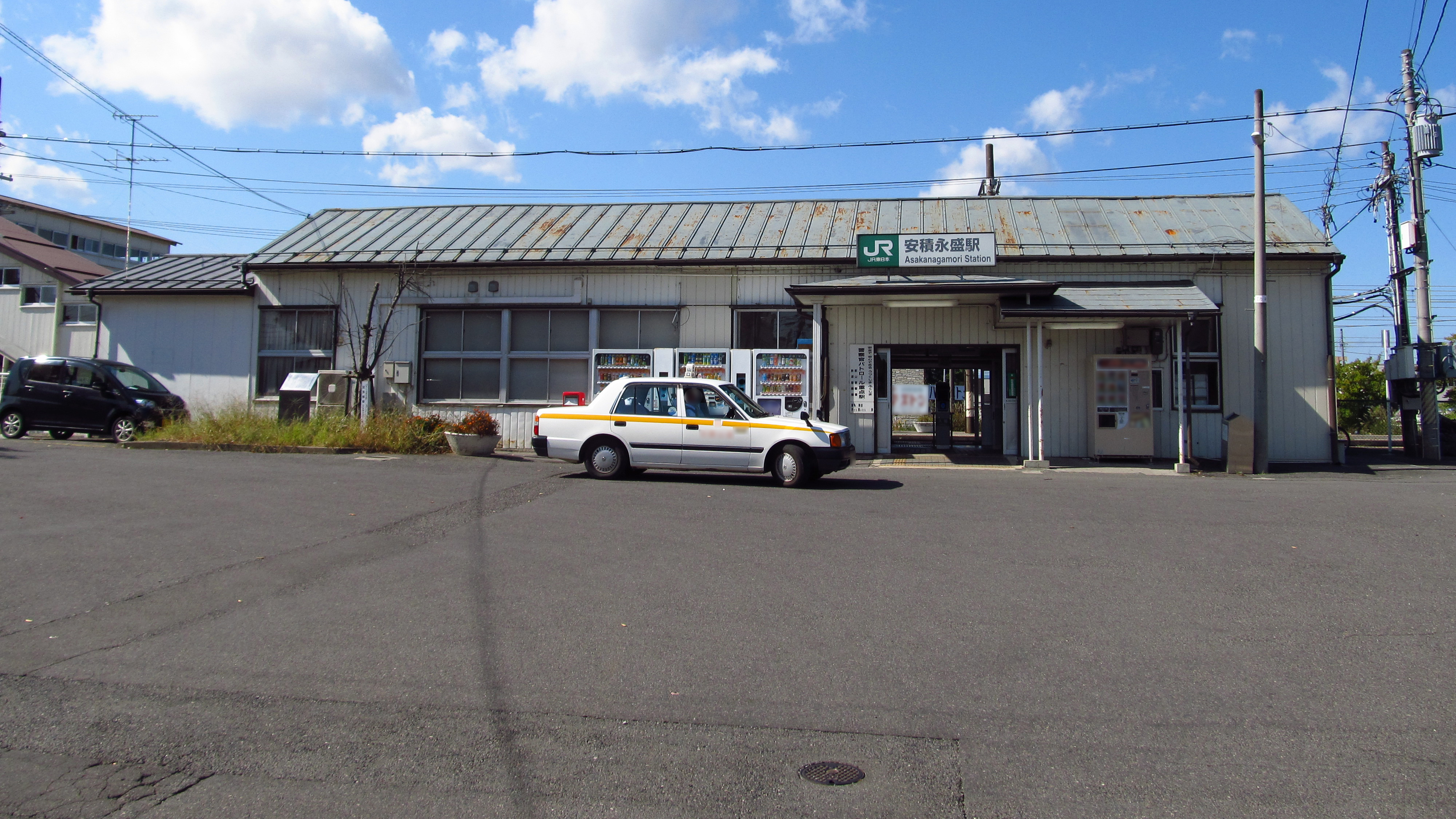 The building of Asakanagamori Station on the Tōhoku Main Line in Kōriyama city, Fukushima prefecture, Japan